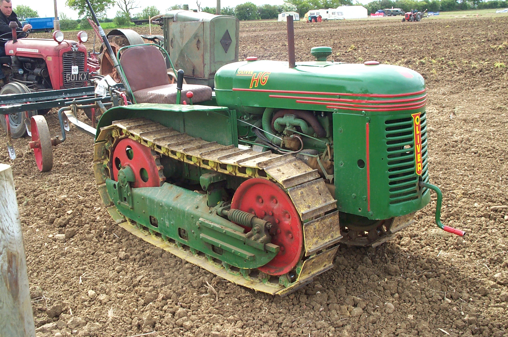 I want one of these...